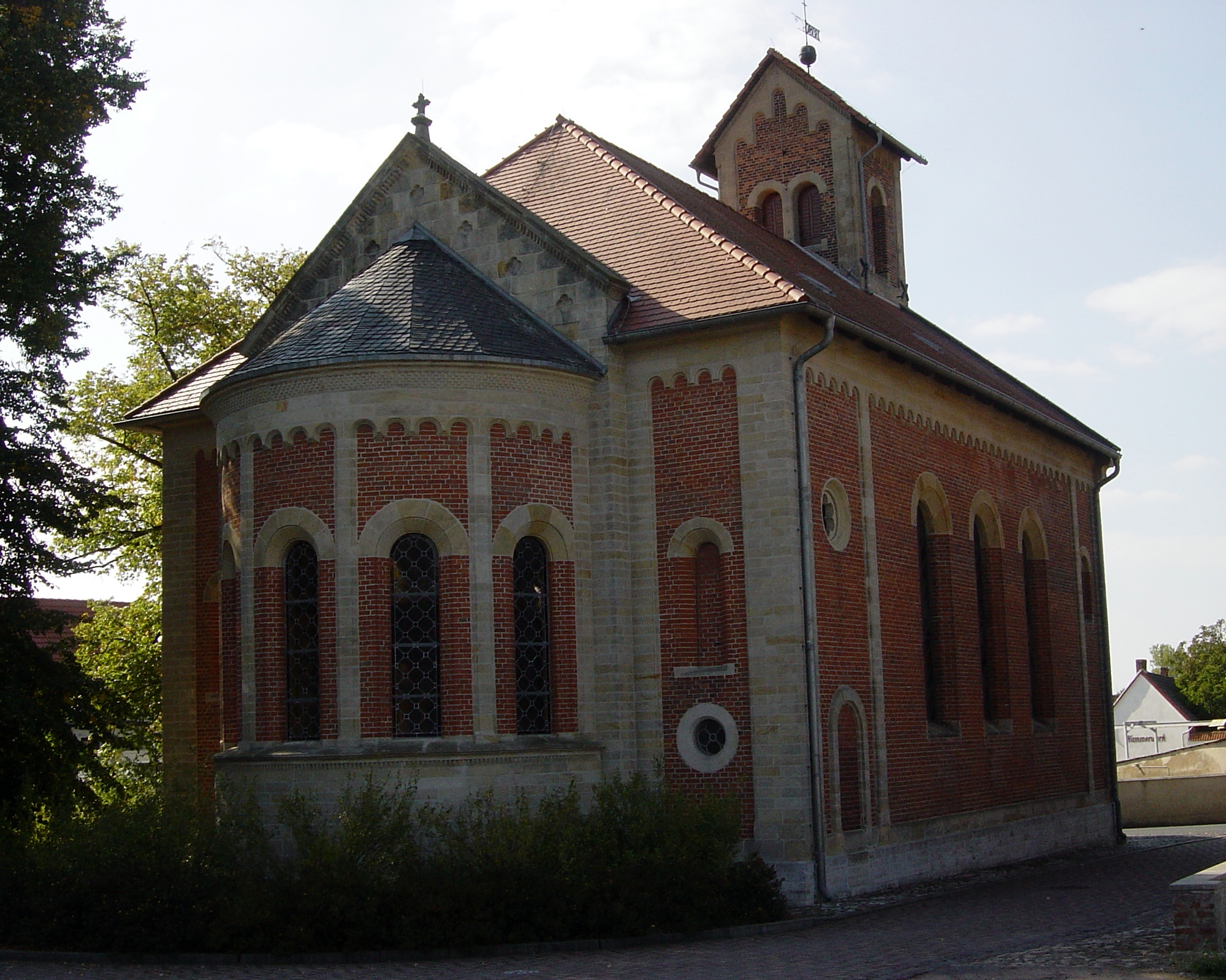 Church in Siegersleben, Germany